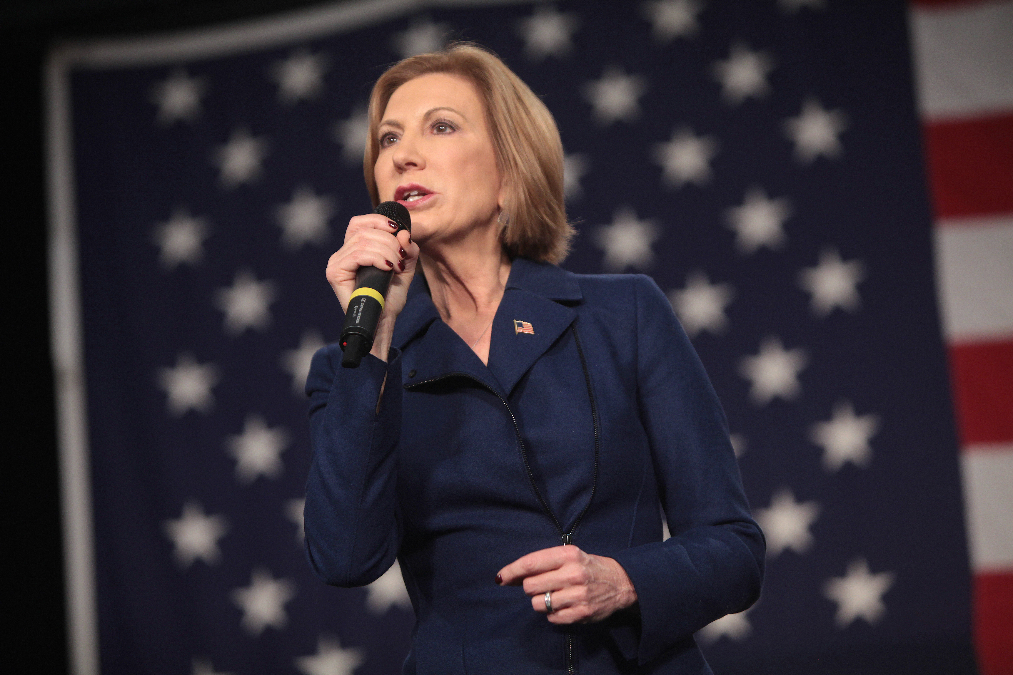 Carly Fiorina speaking with attendees at the 2015 Iowa Growth & Opportunity Party at the Varied Industries Building at the Iowa State Fairgrounds in Des Moines, Iowa.